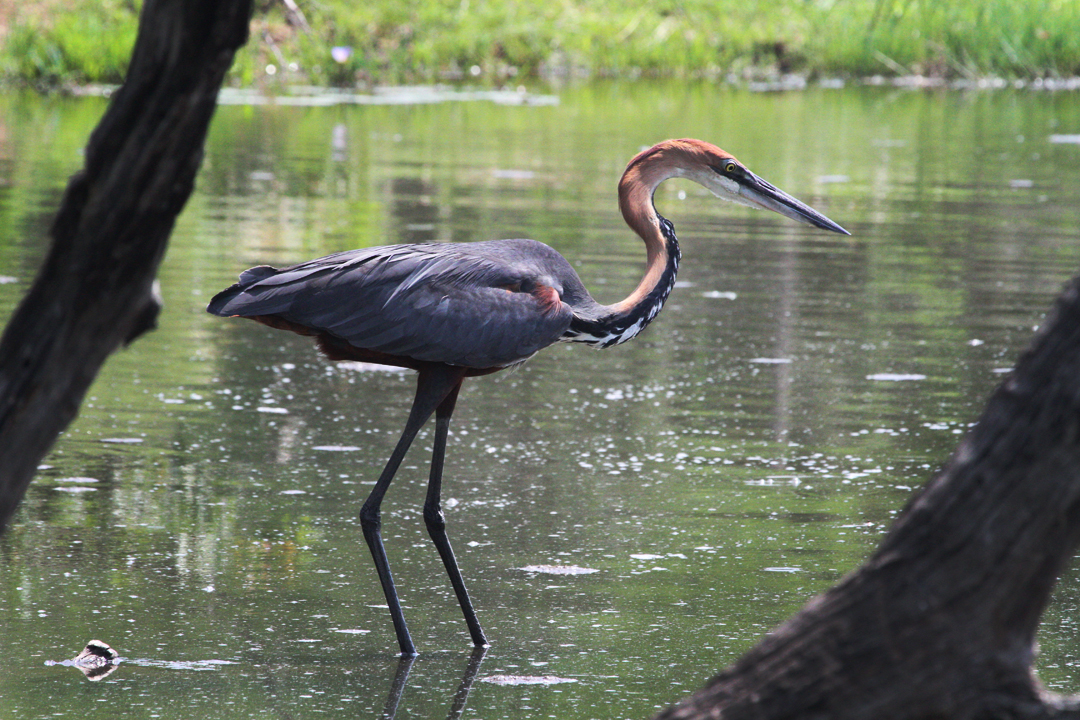 A Goliath Heron at Kruger National Park, South Africa.